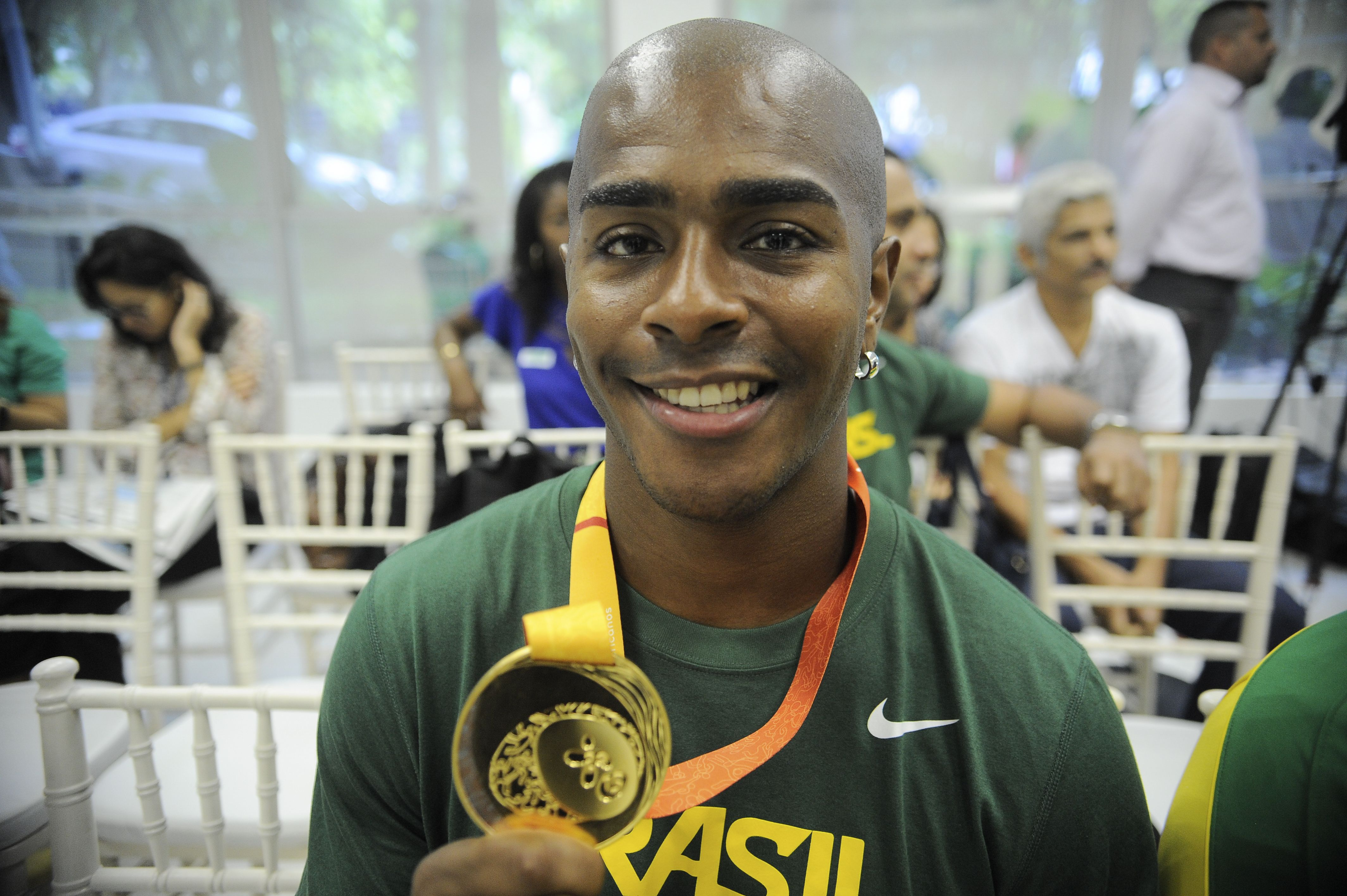 Photo by Tânia Rêgo/Agência Brasil CCBY3.0